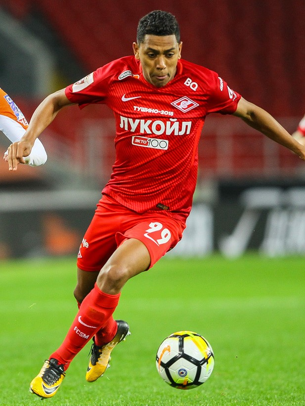 Pedro Rocha Neves